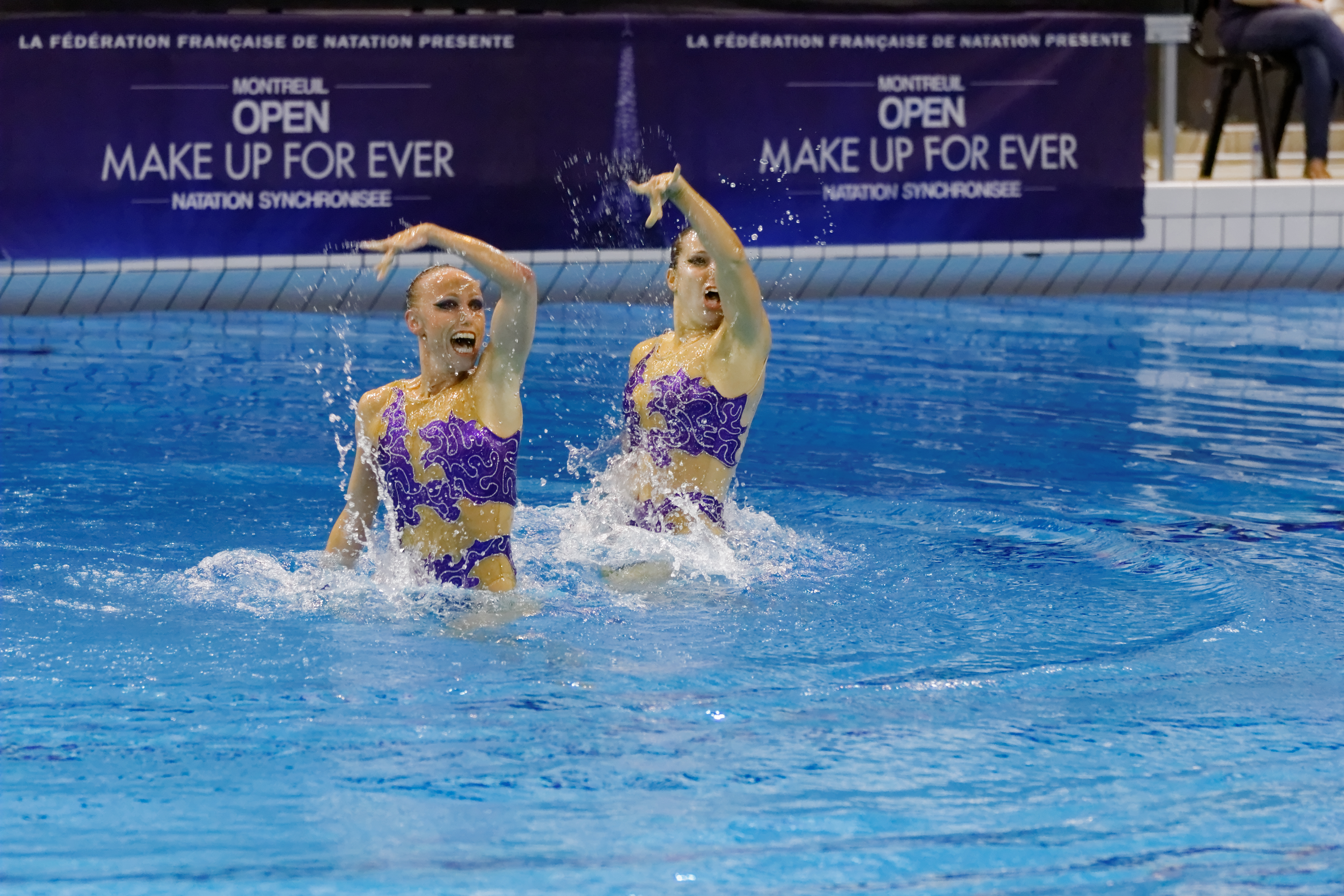 Sona Bernardova and Alzbeta Dufkovai, duet free routine (final), Open Make Up For Ever.